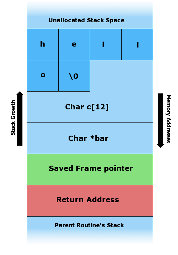 Image showing program stack with normal data and no overflow